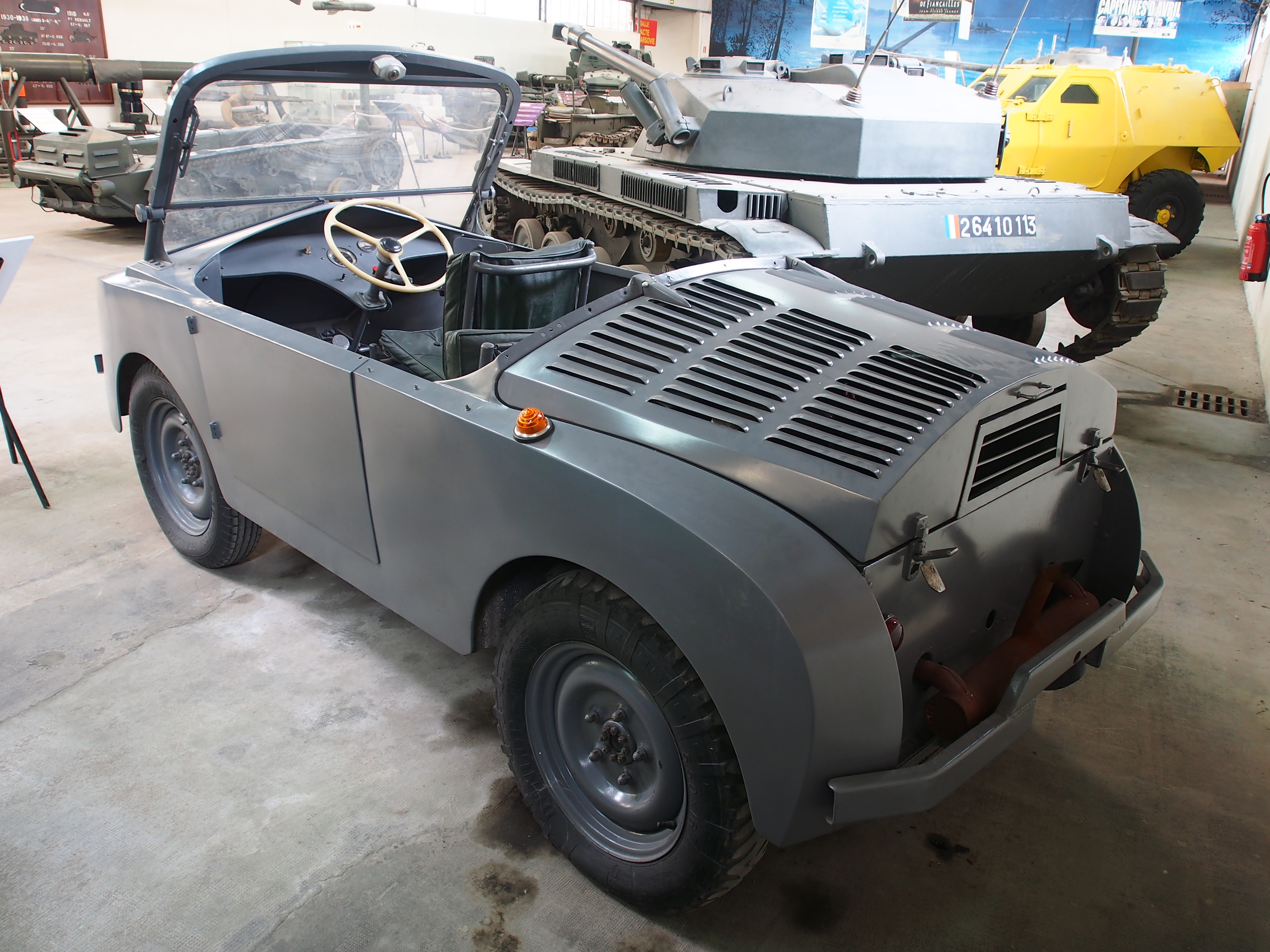 Photographed in the Musée des Blindés, France.